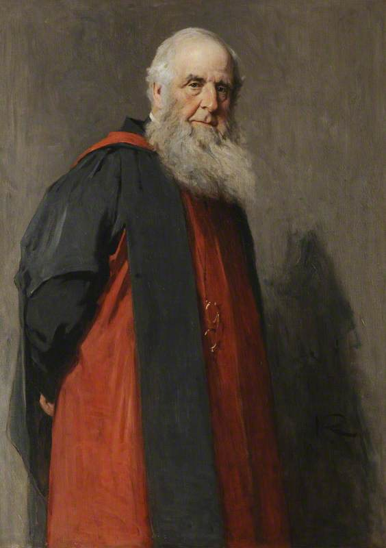 James Franck Bright (1832-1921), Master of University College, Oxford